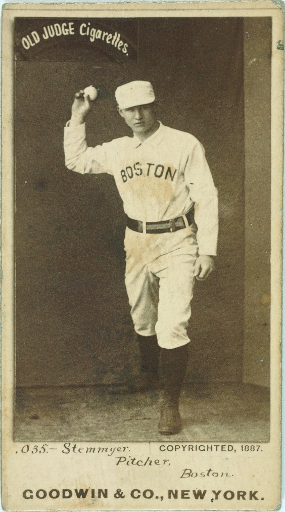 1887 Old Judge baseball card of Bill "Cannon Ball" Stemmeyer of the Boston Beaneaters.